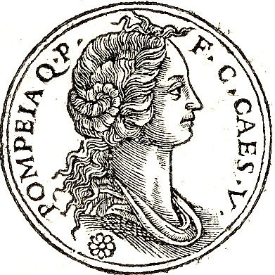 Pompeia, a daughter of Quintus Pompeius Rufus, a son of a former consul, and Cornelia, the daughter of the Roman dictator Lucius Cornelius Sulla, was the second wife of Julius Caesar.